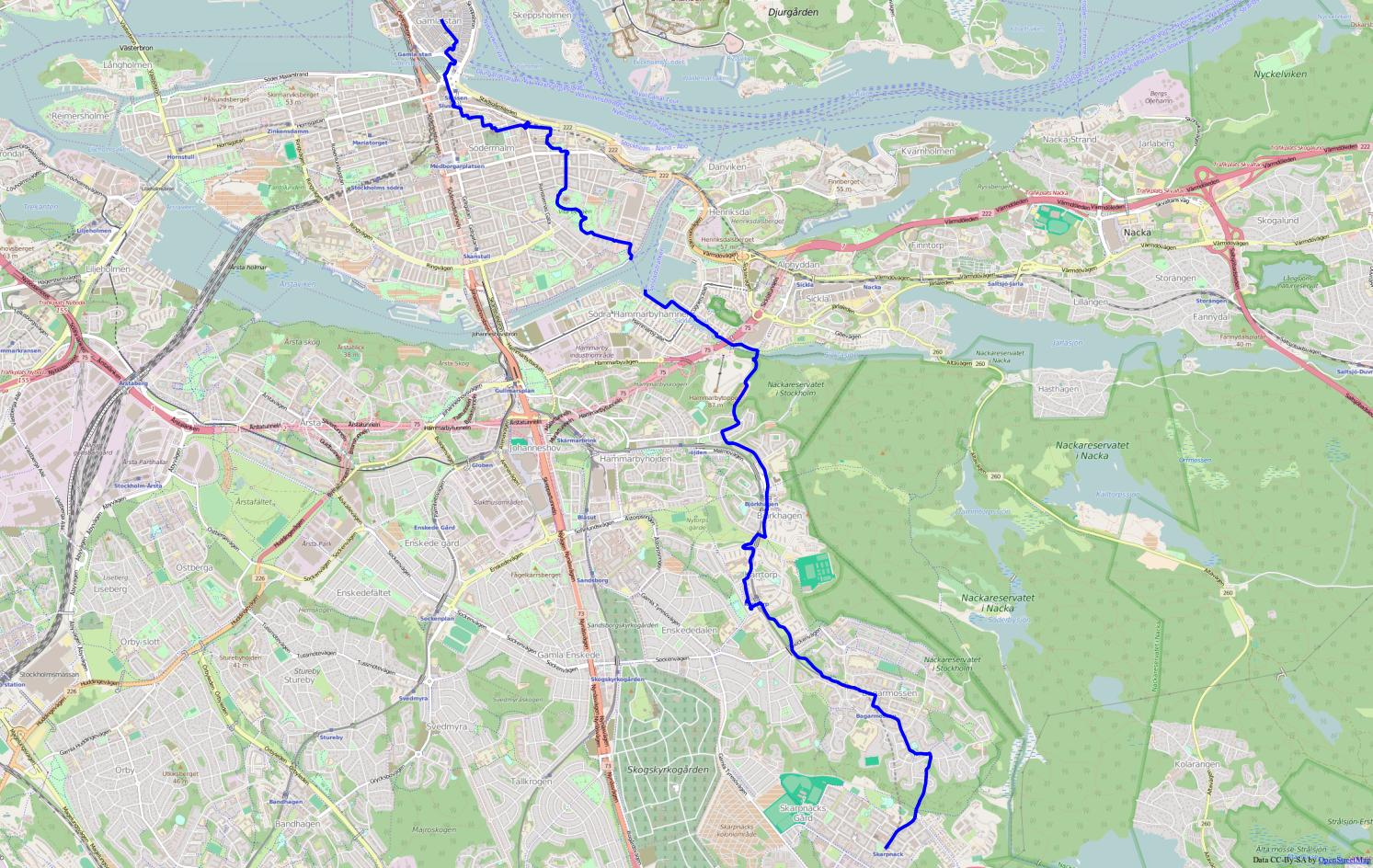 The Skarpnäckstråket hiking trail in Stockholm, Sweden.